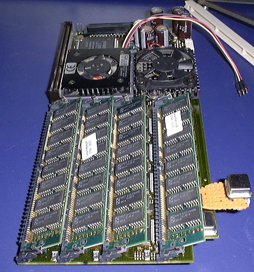 Phase5 CyberStormPPC/604e dual processor board for Amiga 4000 computers. Fully equipped with 128 MBytes of EDO-SDRAM (4x 32MB), PowerPC 604e CPU (233MHz, right) and Motorola 68060 CPU (66Mhz, left) with additional low profile cooler. The original 68060 oscillator has been replaced by a socket to allow easy oscillator exchanges. On the top left is a connector for the CybervisionPPC graphics card, the topmost connector is a 68-pin connector for the onboard SCSI controller.